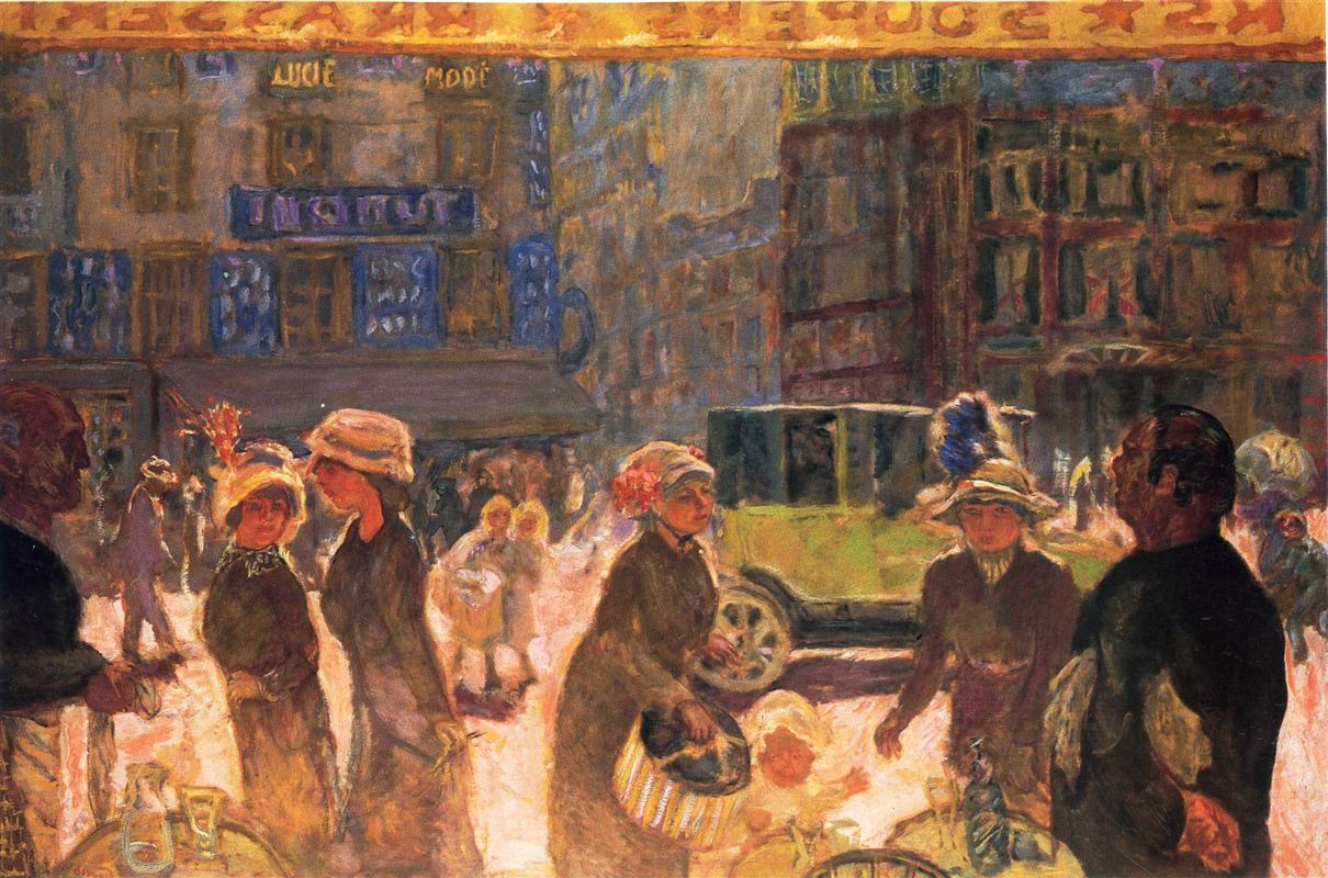 Painting by Pierre Bonnard